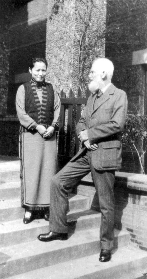 Soong Ching-ling and George Bernard Shaw